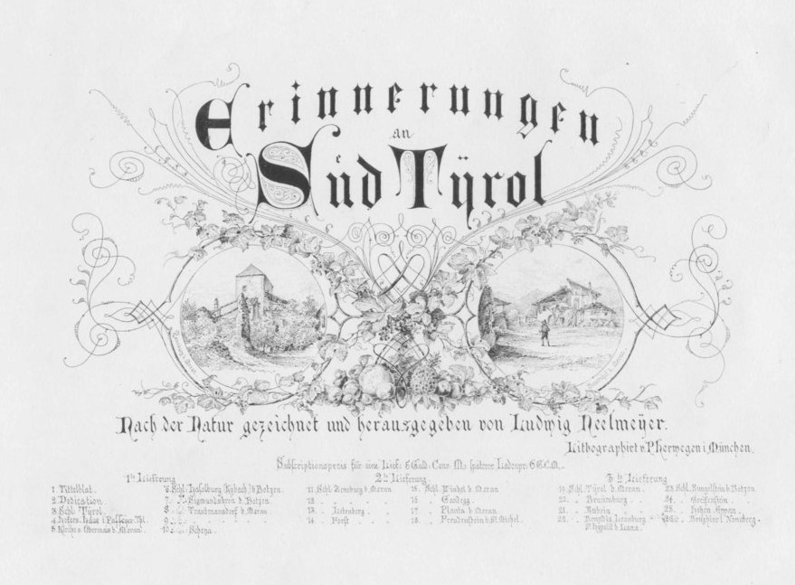 Frontispiece chalcography from Neelmeyer-Herwegen's Erinnerungen an Süd-Tyrol from 1870 ca